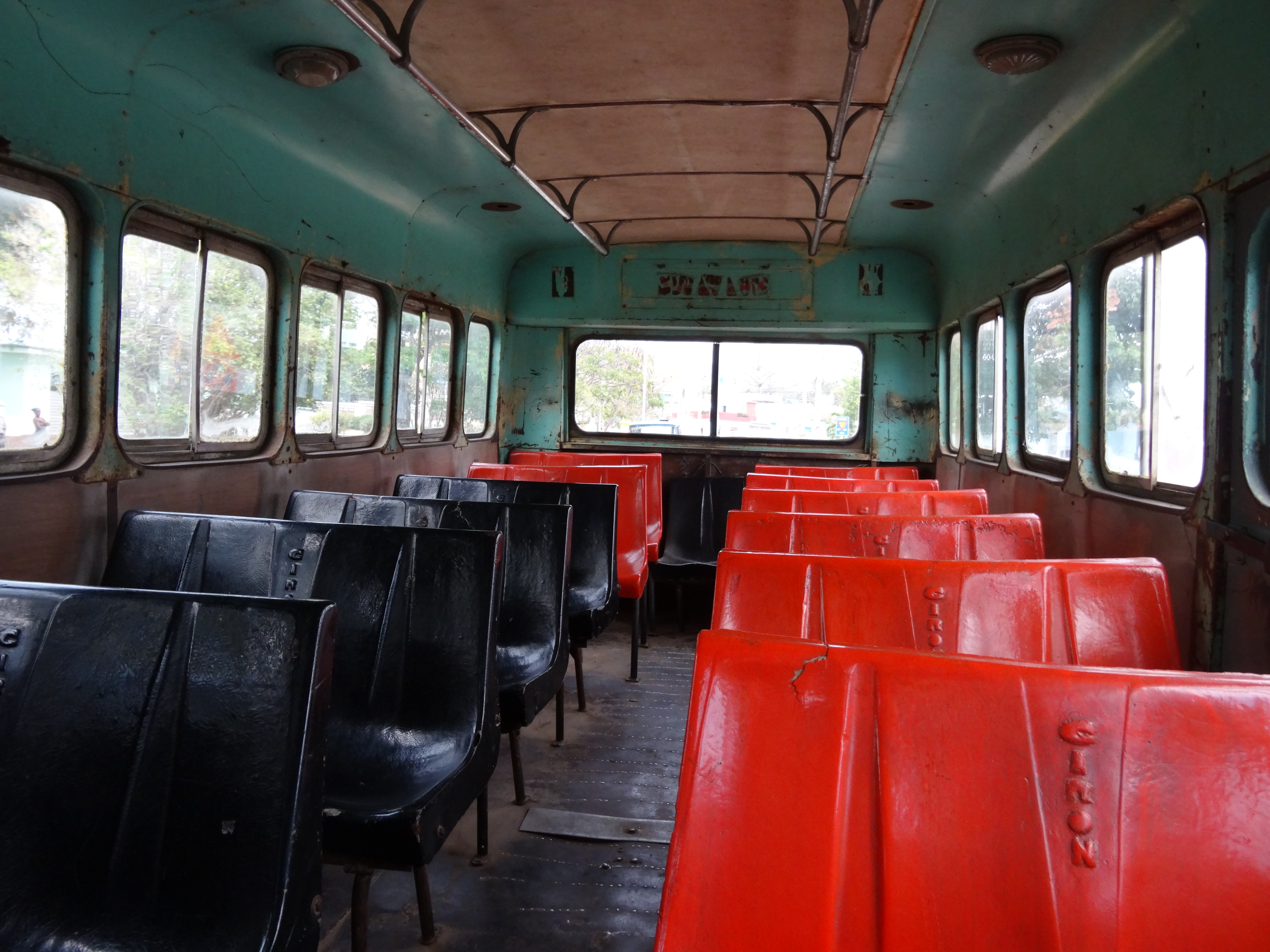 Girón V school bus inside back